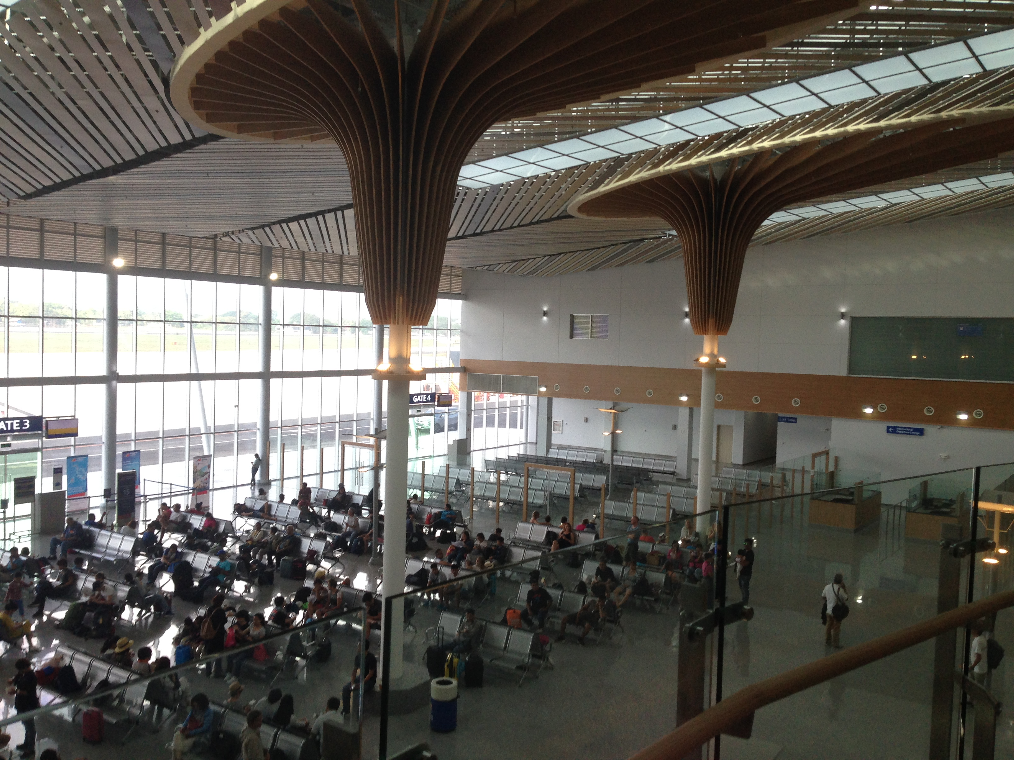 Inside the departure hall, Puerto Princesa International Airport